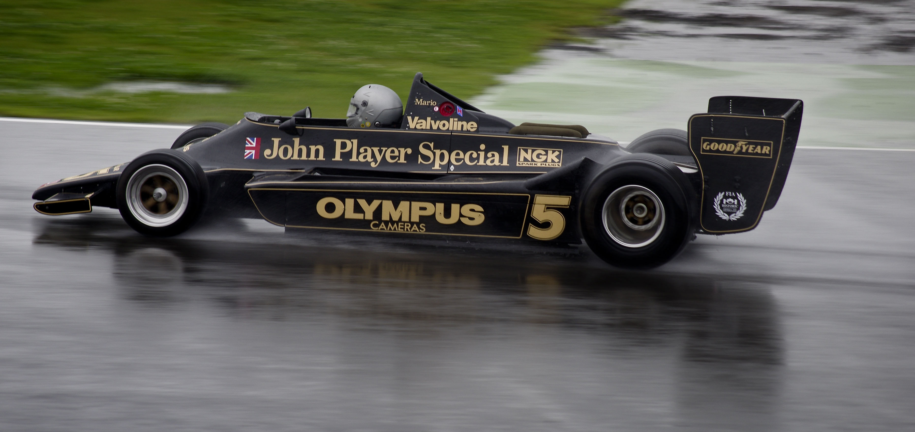 Date Taken:- 06/07/12 Image Shows:- A classic Lotus Formula One (F1) John Player Special car takes part in the HRO Historic Race Series during a wet opening day at the Santander Brish Grand Prix at Silverstone.